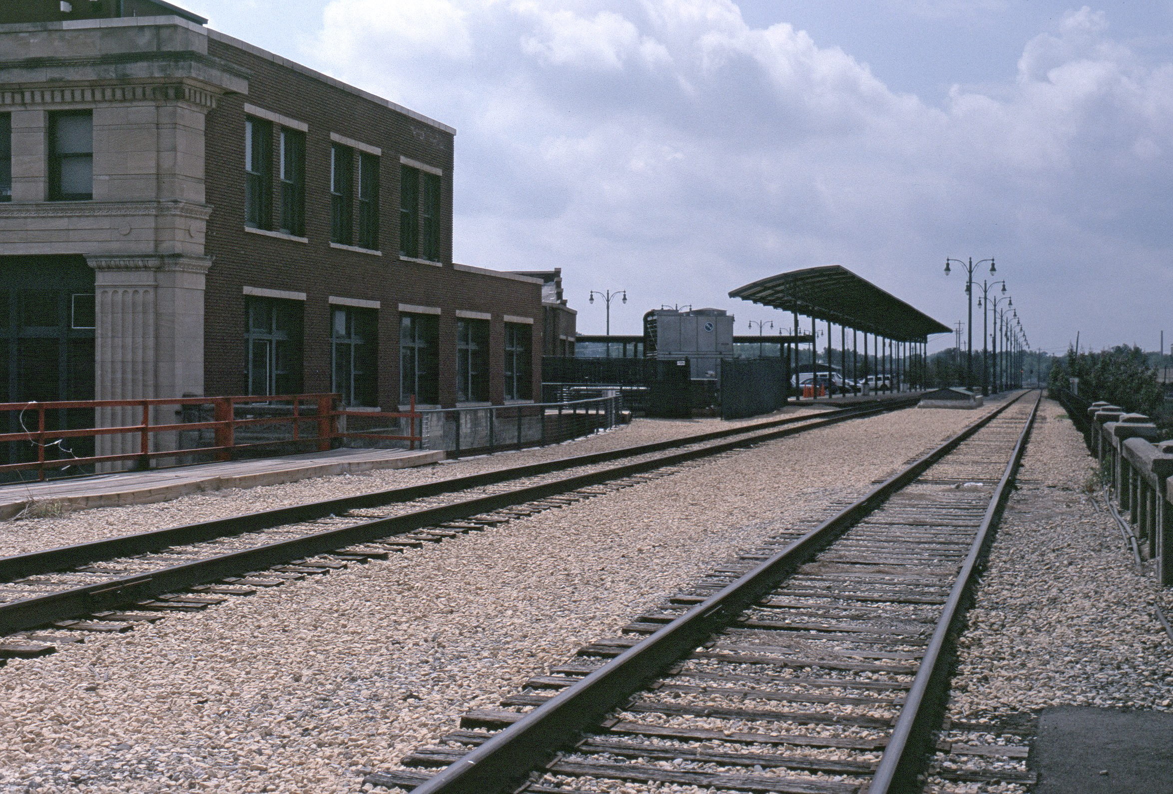 Memphis train station